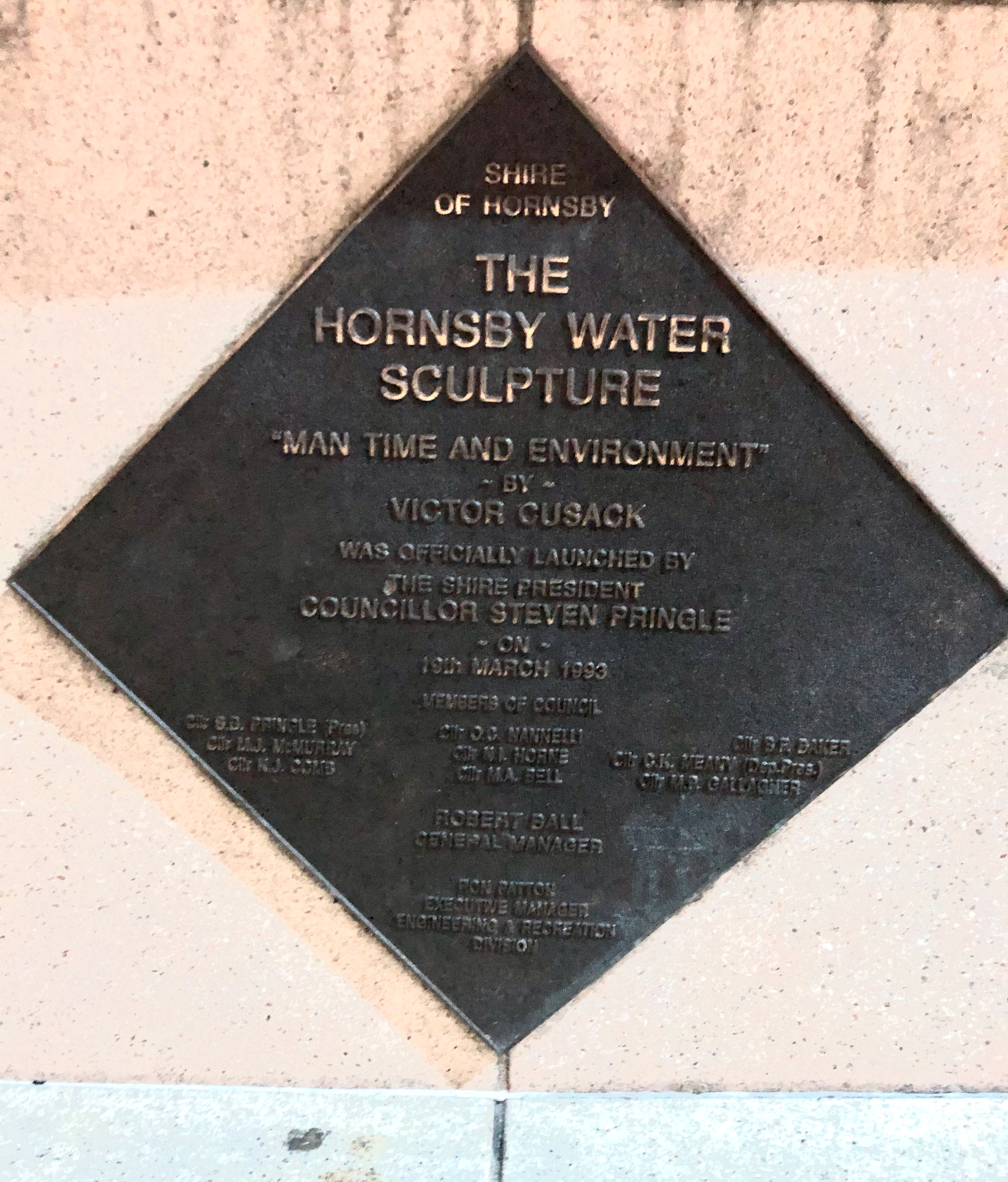 The plaque commemorating the unveiling of the Hornsby Water Clock (Man, Time and the Environment by Victor Cusack) located in the Florence Street mall in Hornsby, New South Wales, Australia